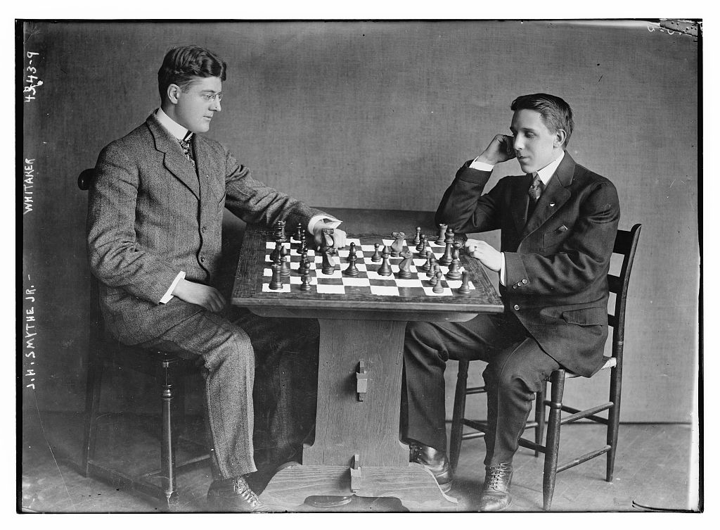 Bain News Service,, publisher. J.H. Smythe Jr. & Whitaker [between ca. 1915 and ca. 1920] 1 negative : glass ; 5 x 7 in. or smaller. Notes: Title from unverified data provided by the Bain News Service on the negatives or caption cards. Forms part of: George Grantham Bain Collection (Library of Congress). Format: Glass negatives. Repository: Library of Congress, Prints and Photographs Division, Washington, D.C. 20540 USA, General information about the Bain Collection is available at Higher resolution image is available (Persistent URL): Call Number: LC-B2- 4343-9